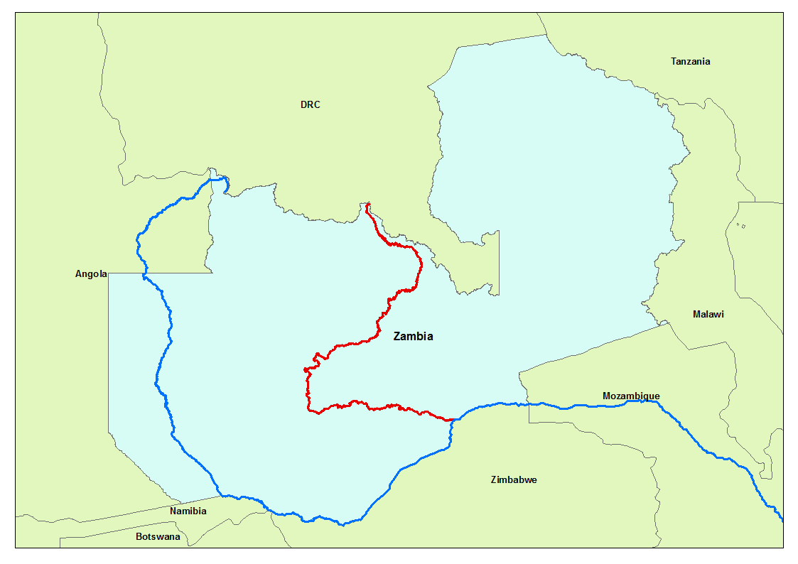 The Kafue River (red) and part of the Zambezi River (blue)